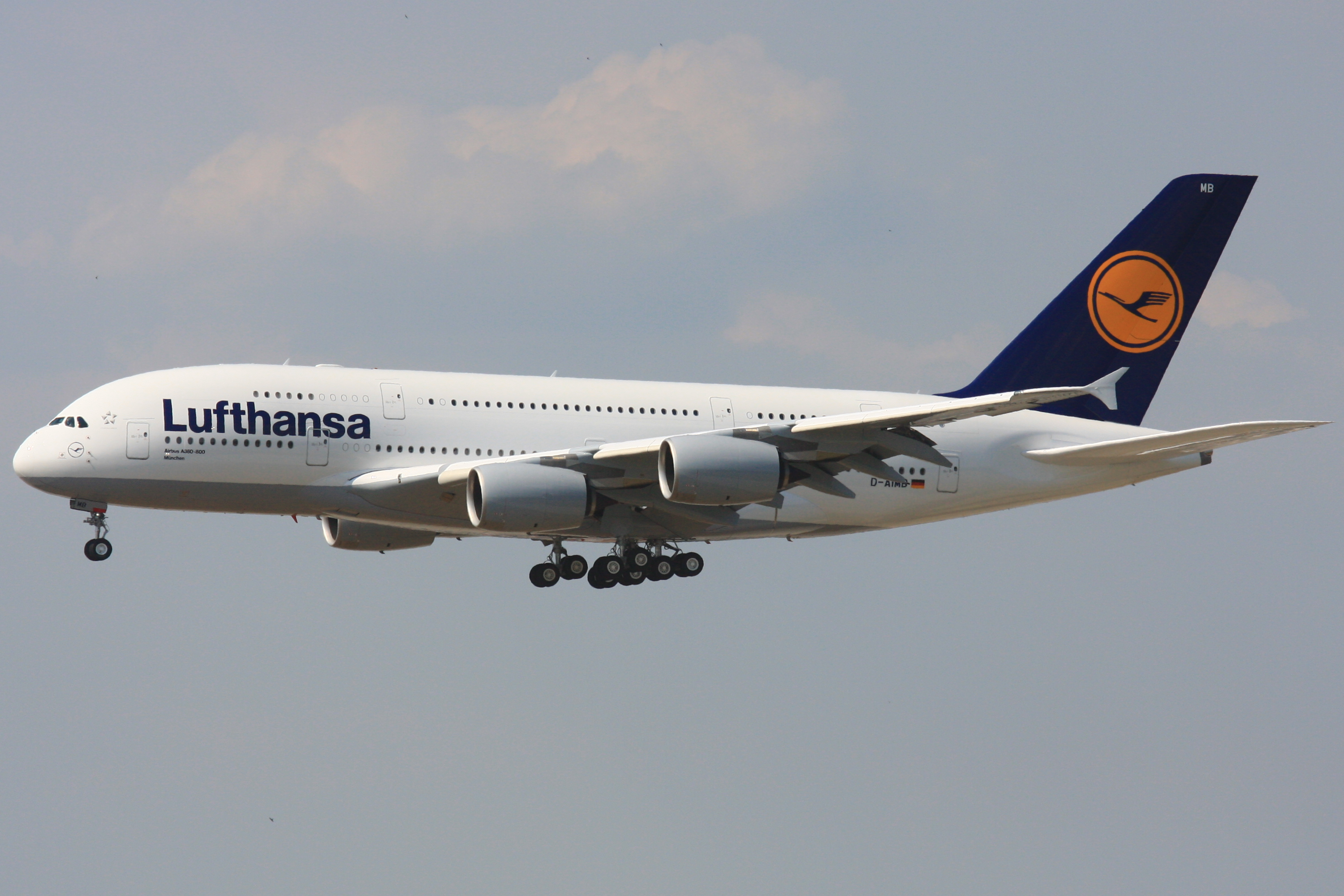 An Airbus A380 of Lufthansa's landing at Frankfurt Airport